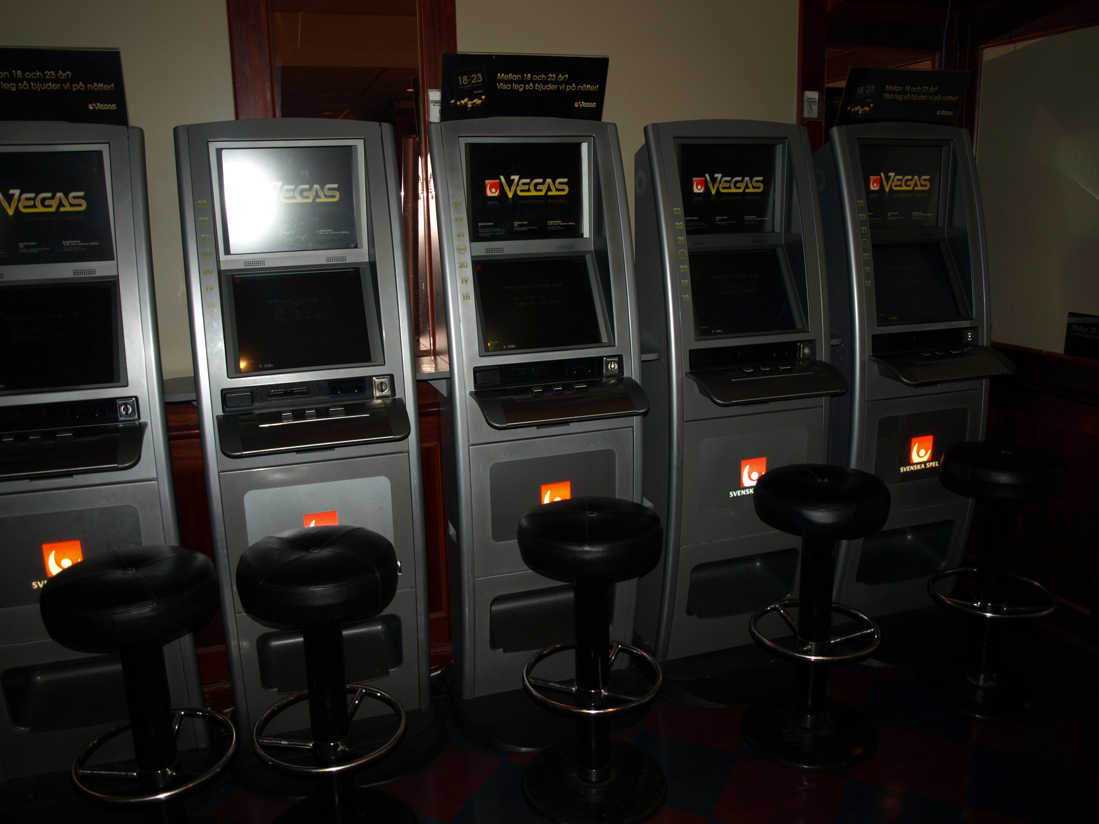 A couple of "Jack Vegas" slot machines in a restaurant and nightclub in Stockholm, Sweden.